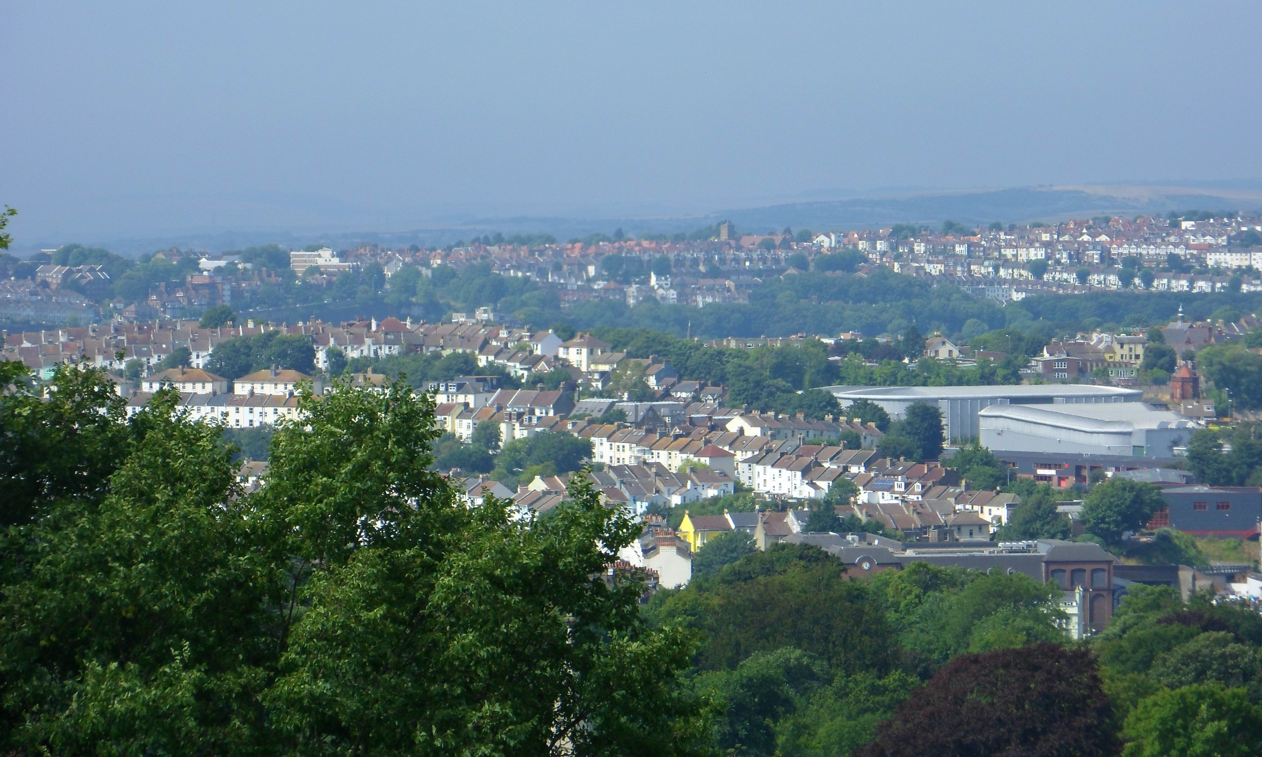 Views of Brighton and Hove #14. This view looks slightly north of westwards from Tenantry Down Road (which connects Elm Grove and Bear Road), high above the east side of Brighton. Features (click to enlarge): Across the background runs the Prestonville suburb. Just right of centre is the tower of the Church of the Good Shepherd on Dyke Road, which serves the north part of Prestonville. The houses in the left foreground are those of the Round Hill suburb. The large futuristic-looking structure is the Veolia refuse disposal facility on Hollingdean Lane. To its right, the small conical-domed red building is the chapel of the old Jewish Cemetery. The blue building is on the Hughes Industrial Estate, and the wide brick building with the clock is the Lewes Road Sainsbury's. Both were built on the site of the viaduct which tool the Kemp Town branch line across the Lewes Road valley.